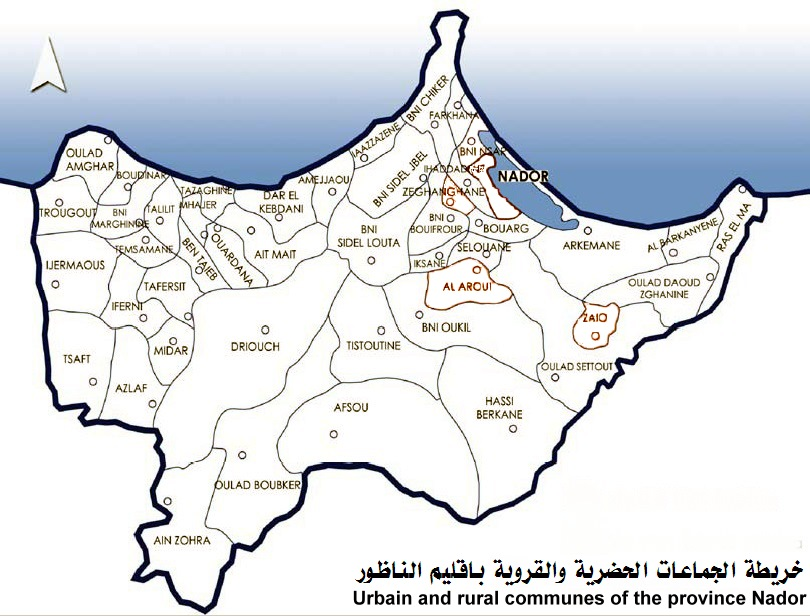 urbain and rural communes of the province Nador